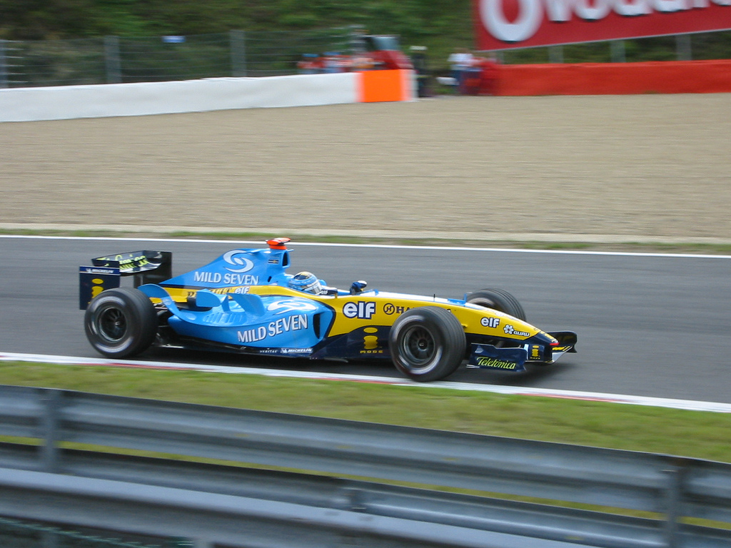 Jarno Trulli driving for Renault F1 at the 2004 Belgian Grand Prix.